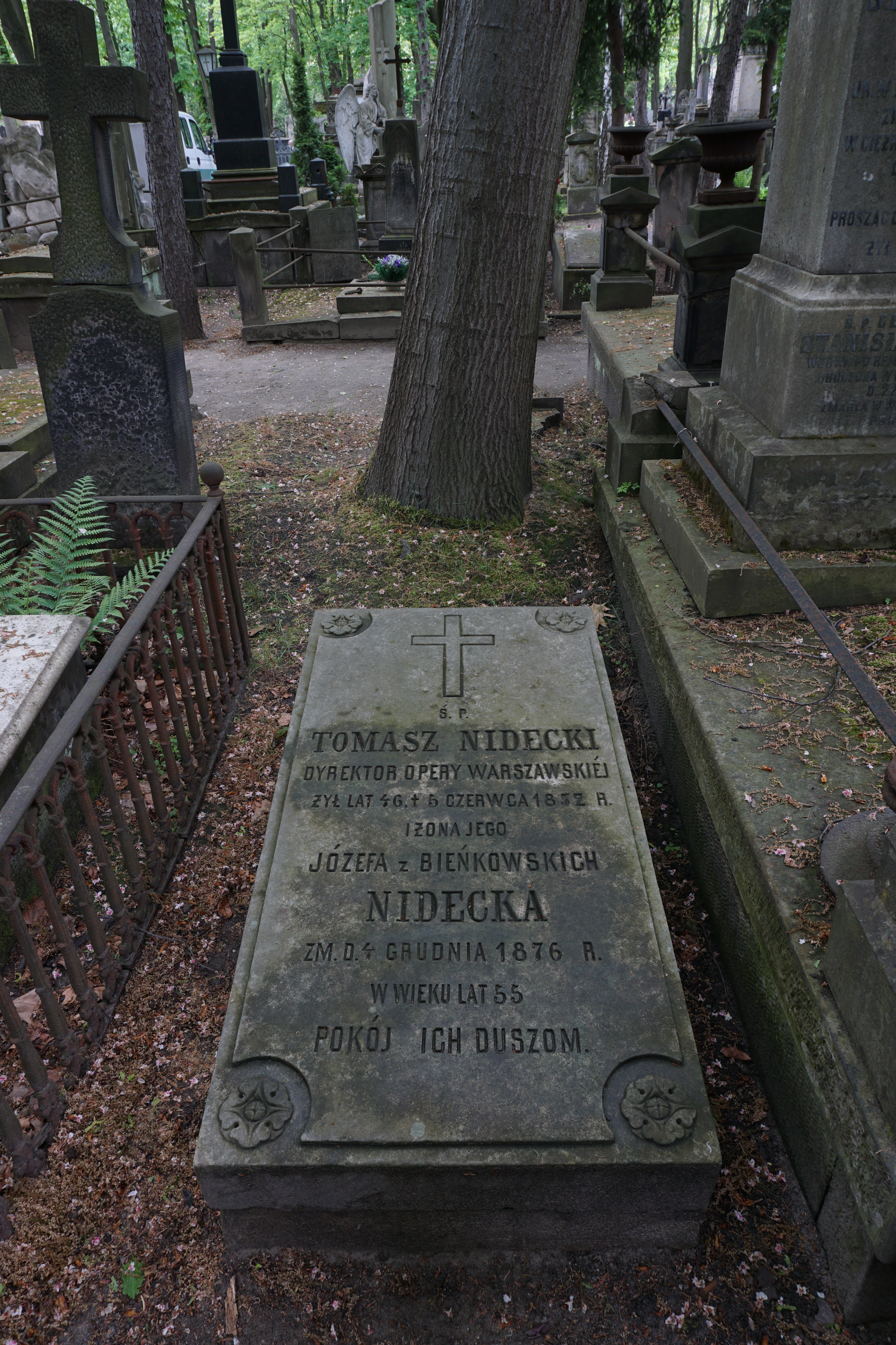 The grave of Tomasz Napoleon Nidecki at the Powązki Cemetery (section 11, row 3, grave 27)